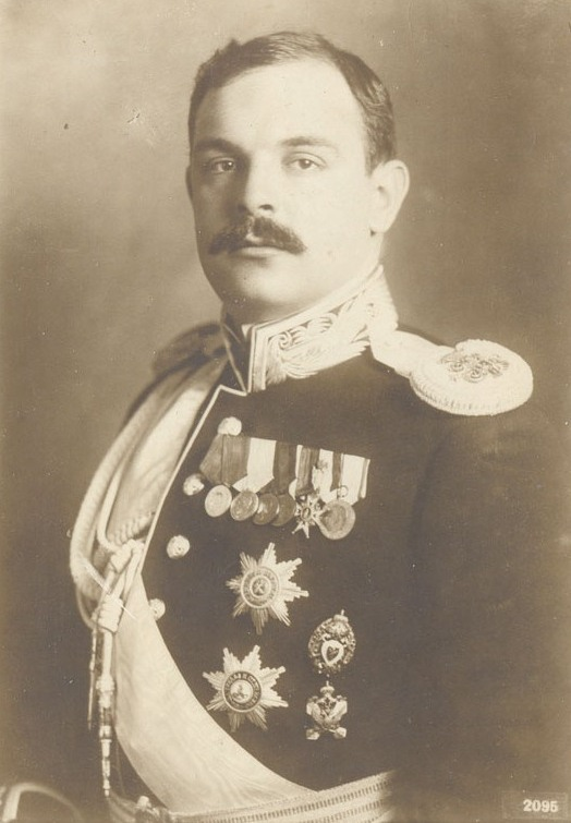 Sergey Georgievich of Leichtenberg (1890-1974)